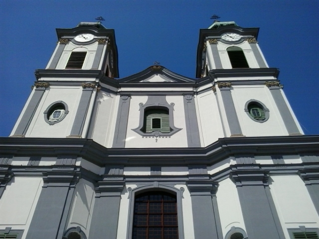 St. John Churc in Székesfehérvár, Hungary